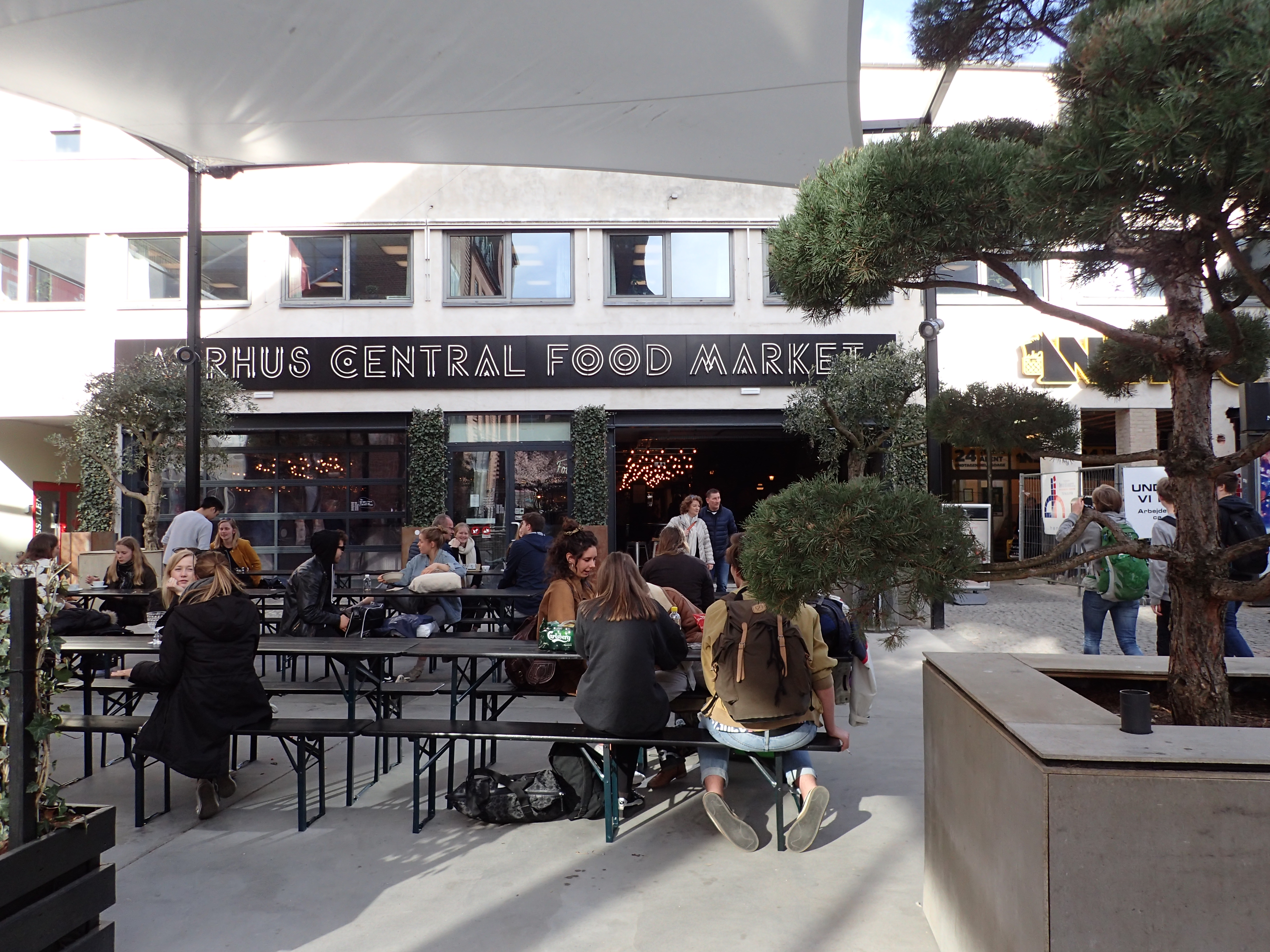 Aarhus Central Food Market